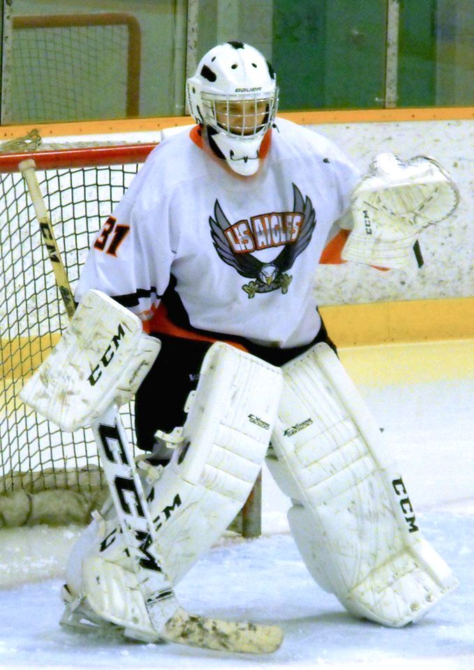 This photo was taken by Devan Mighton during the 2014-15 WECSSAA season.